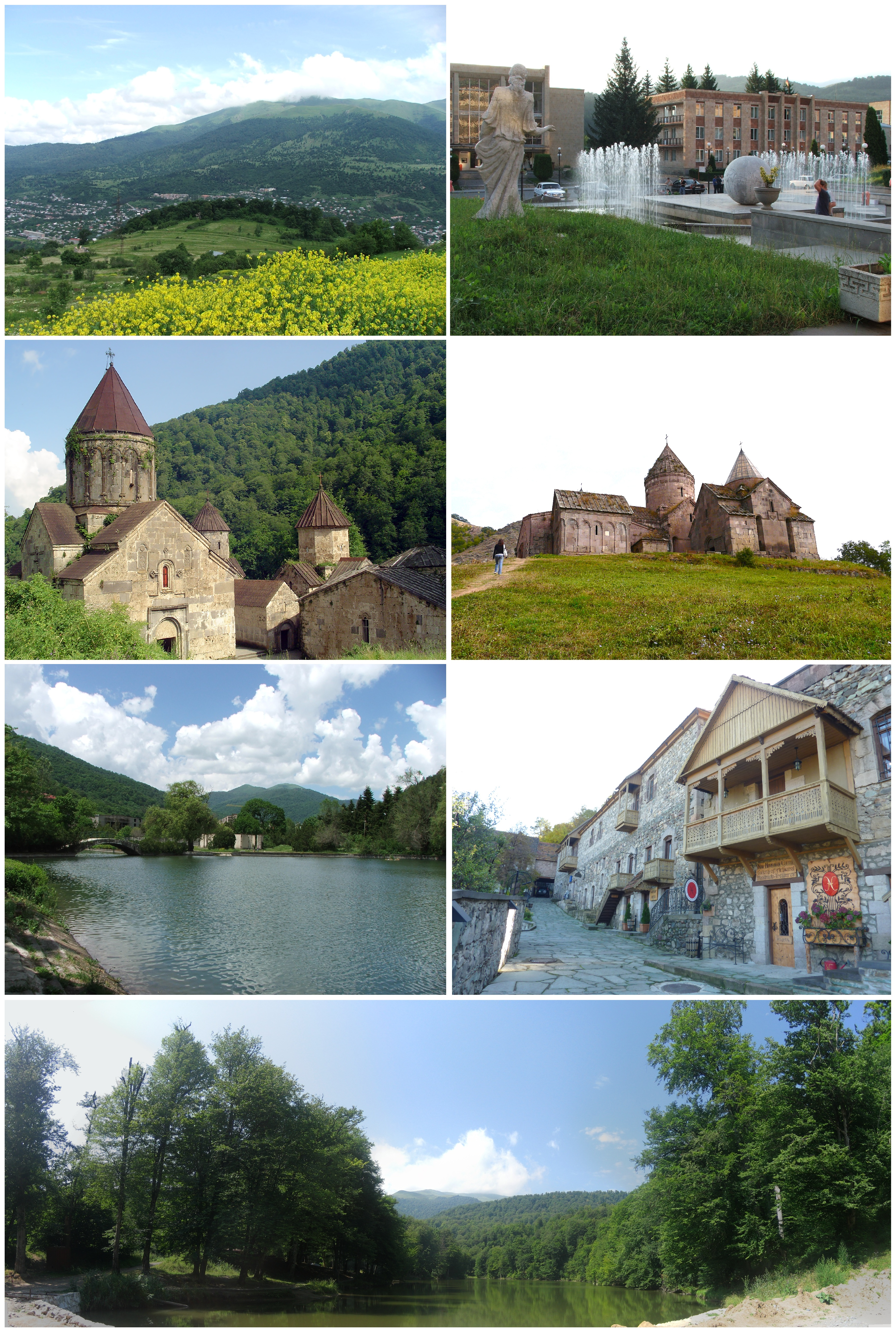 Dilijan toen landmarks, Armenia